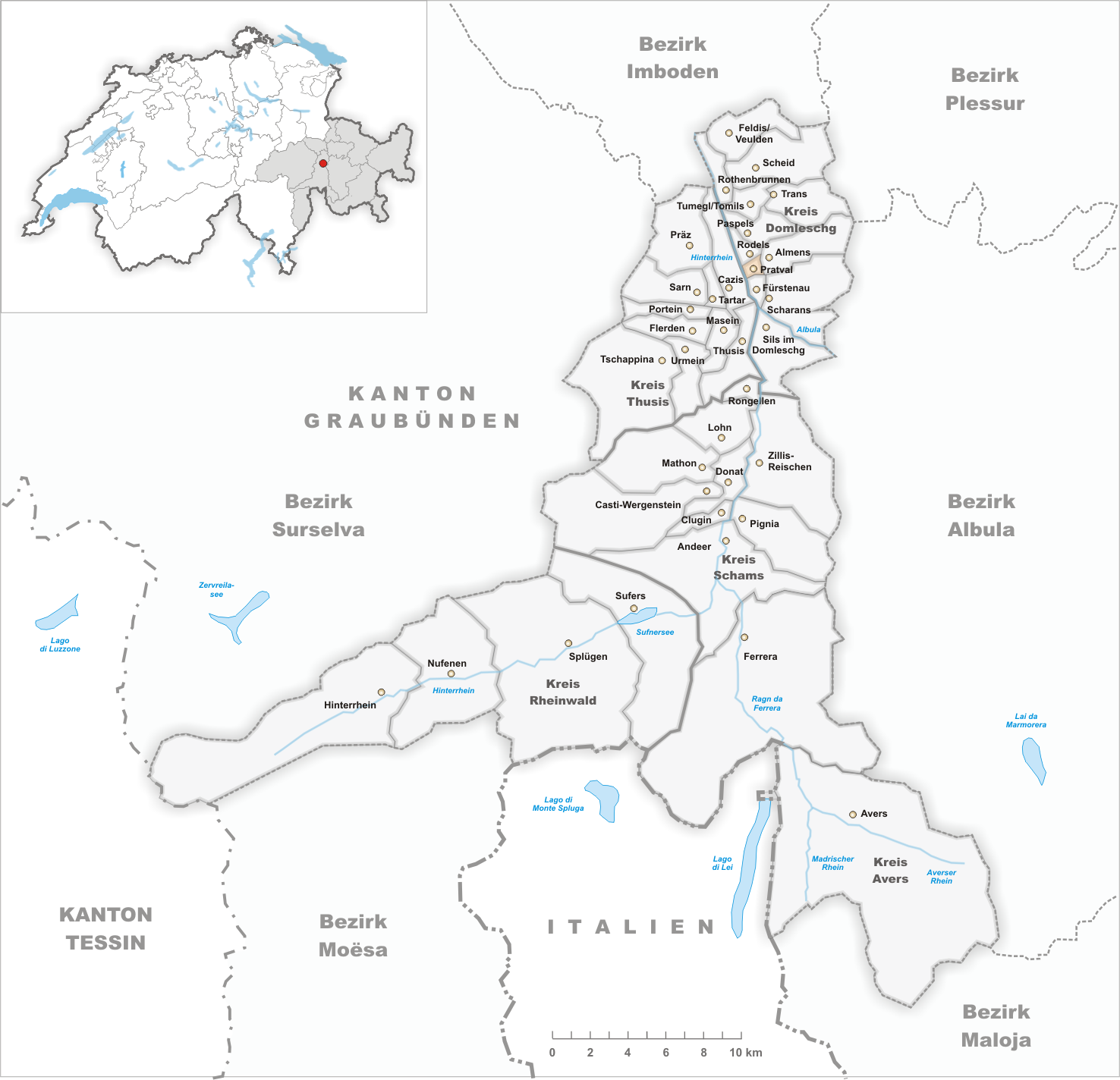 Municipality Pratval